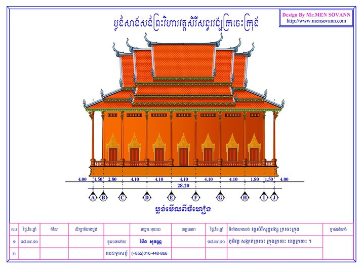 ចម្លាក់ខ្មែរ ម៉ែន សុវណ្ណ សូមស្វាគមន៍ ! ការសាងសង់របស់ខ្ញុំ នៅវត្ត សិរីសុន្ធរវង្ស ក្រចេះក្រុង ស្ថិតនៅ ភូមិវត្ត សង្កាត់ក្រចេះ ក្រុងក្រចេះ ខេត្តក្រចេះ។ ថ្ងៃ.ខែ.ឆ្នាំ ចាប់ផ្តើមសាងសង់ ០២/០៤/២០០៩ ដោយ ព្រះតេជគុណ ជន ស៊ីអីម Khmer Sculpture​ Men Sovann Welcome ! My Building of Vat Serey Sontharavong's Buddhist Temple, At Vat Village, Sangkat Kratie, Kratie City, Date of Building : 02/04/2009 To Present, The Owner Mr.Chun Sy Im